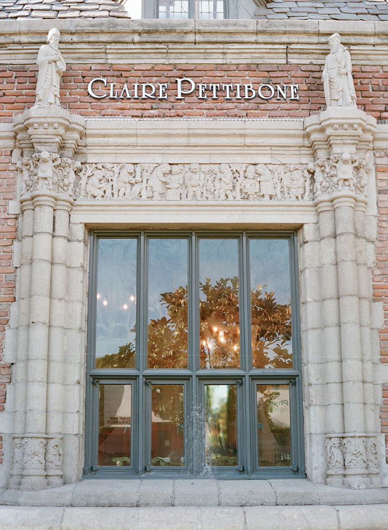 7415 Beverly Boulevard, Los Angeles, CA 90036 in the Heinsbergen Decorating Company Building